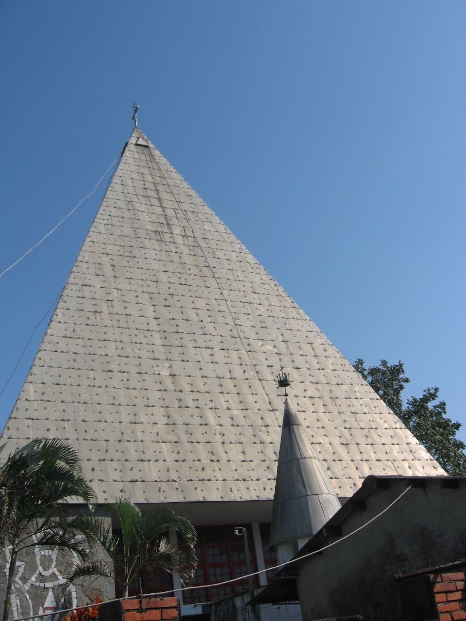 Saint Cross Church, Jingliao, Architect: Gottfried Böhm